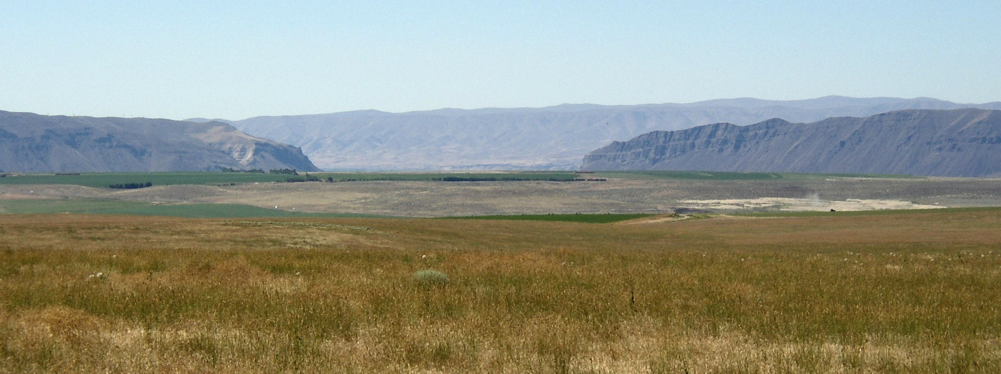 Sentinel Gap in the Saddle Mountains as seen from the North. Photo taken by uploader. All rights released. Williamborg 05:55, 23 November 2006 (UTC)